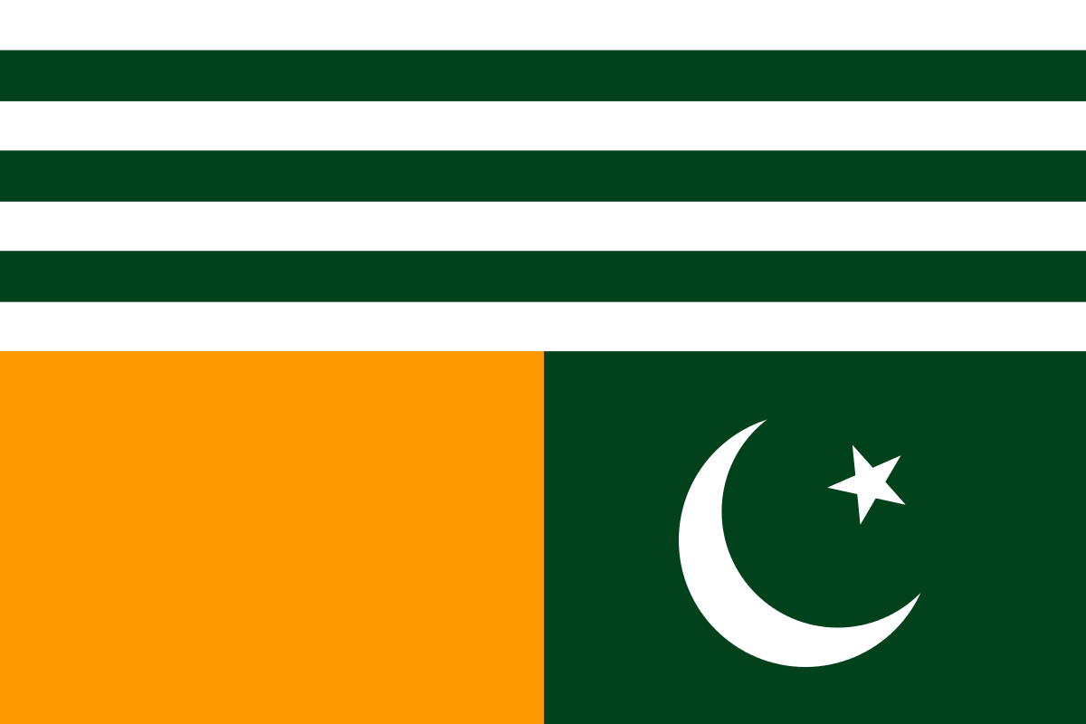 Flag of Gilgit-Baltistan from until 16 November 1947